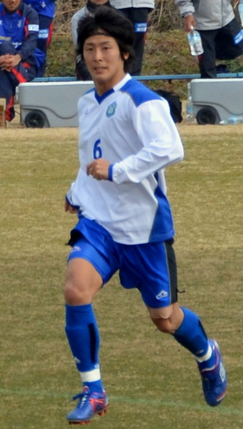 Ryota Nagaki, cropped from kofu - shonan